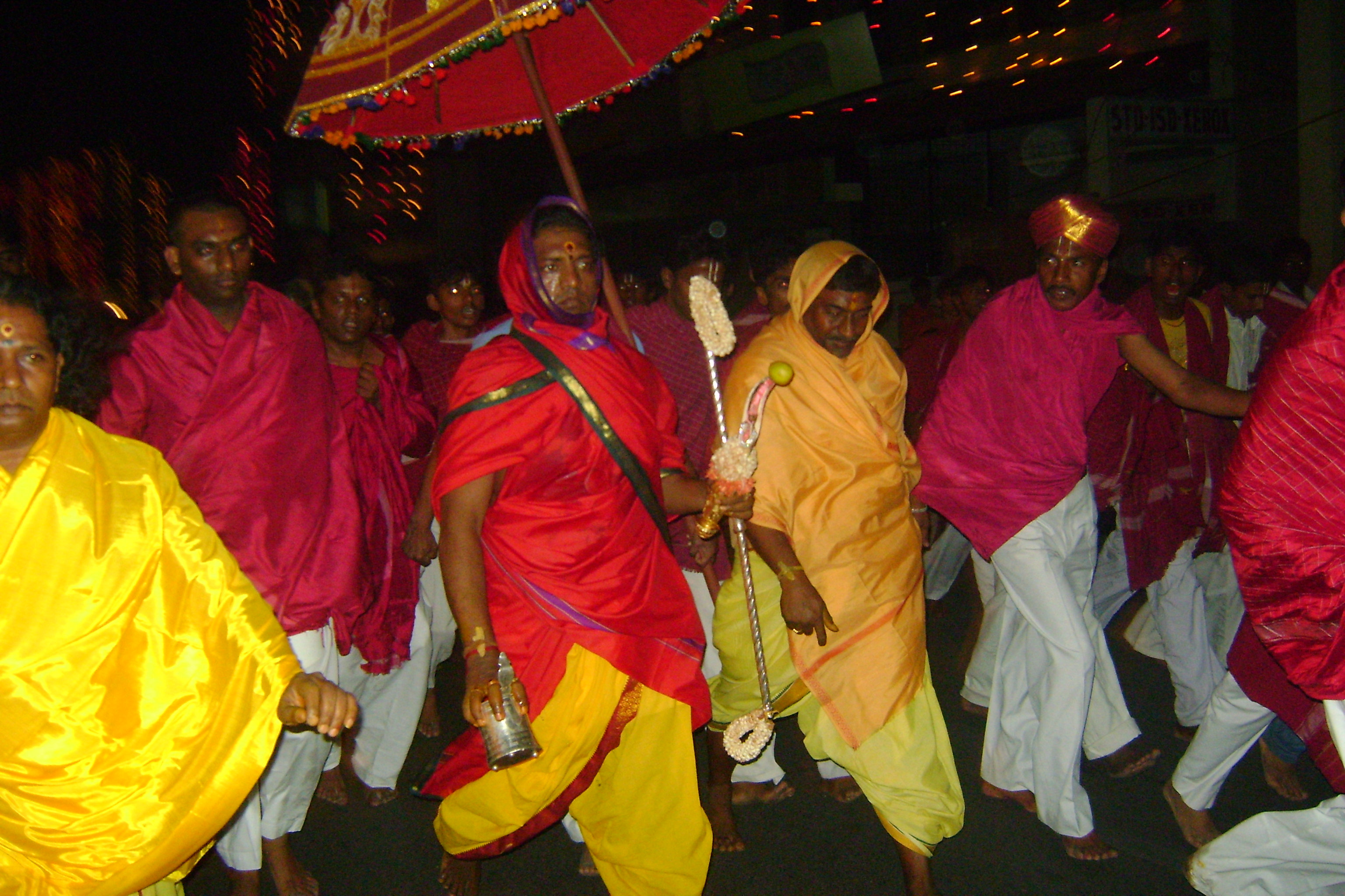 Karaga carrier moving towards cubbon park for a ritual which is the initial stages of Pache Kargu or Hasi Karaga.